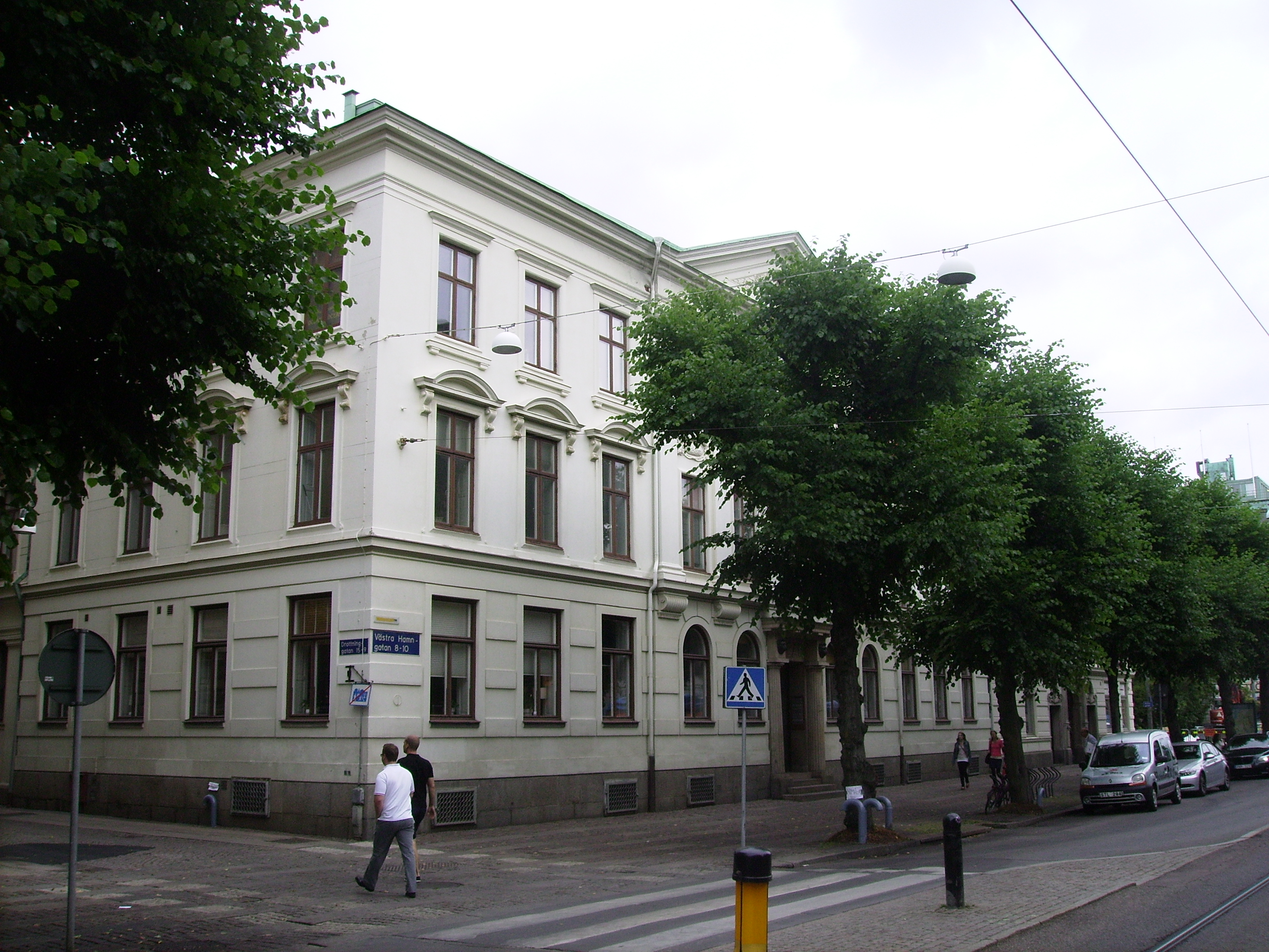 Picture of a Building at Västra Hamngatan 8 in Gothenburg, former insurance company Ocean.